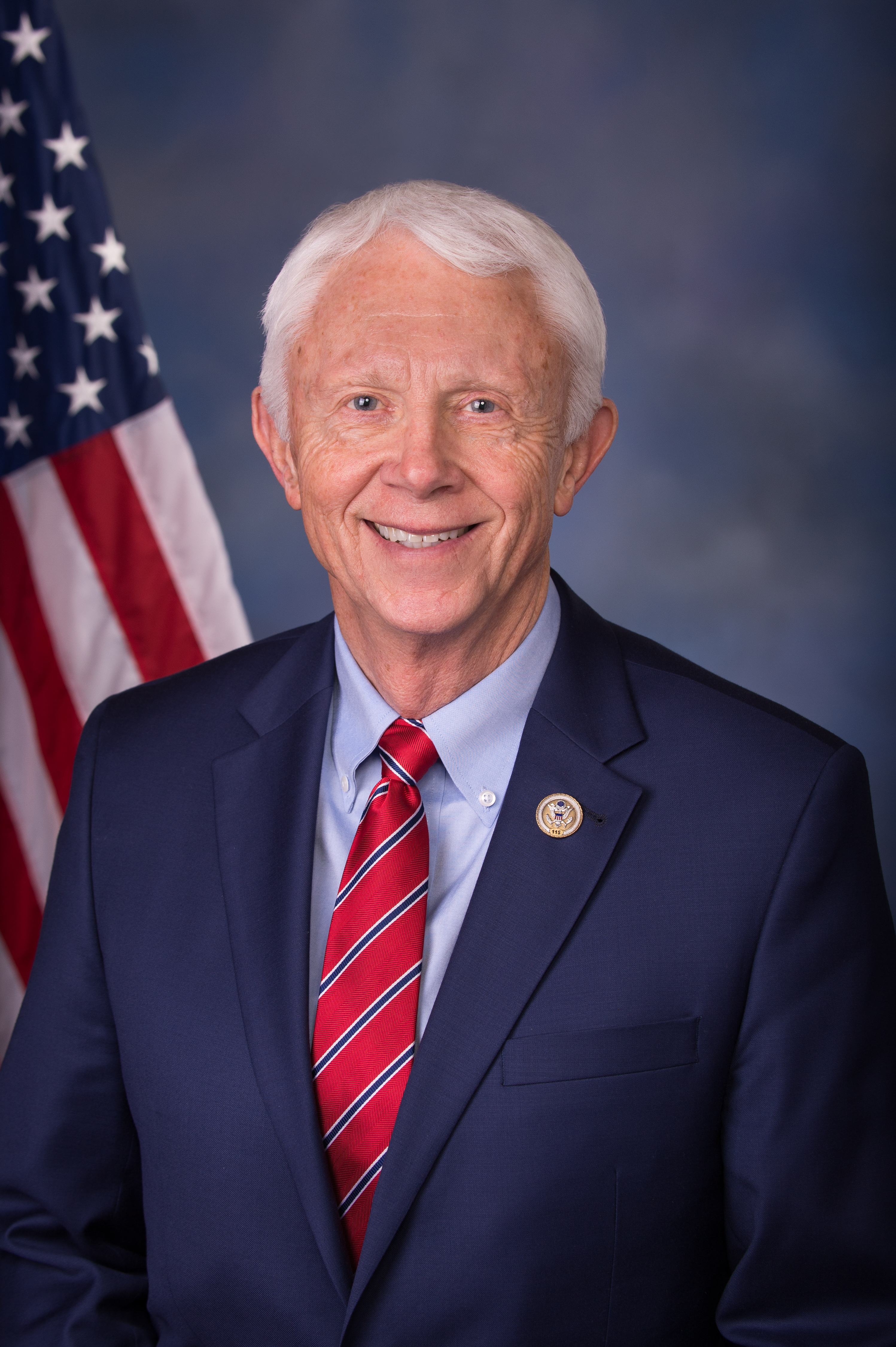 Jack Bergman photo